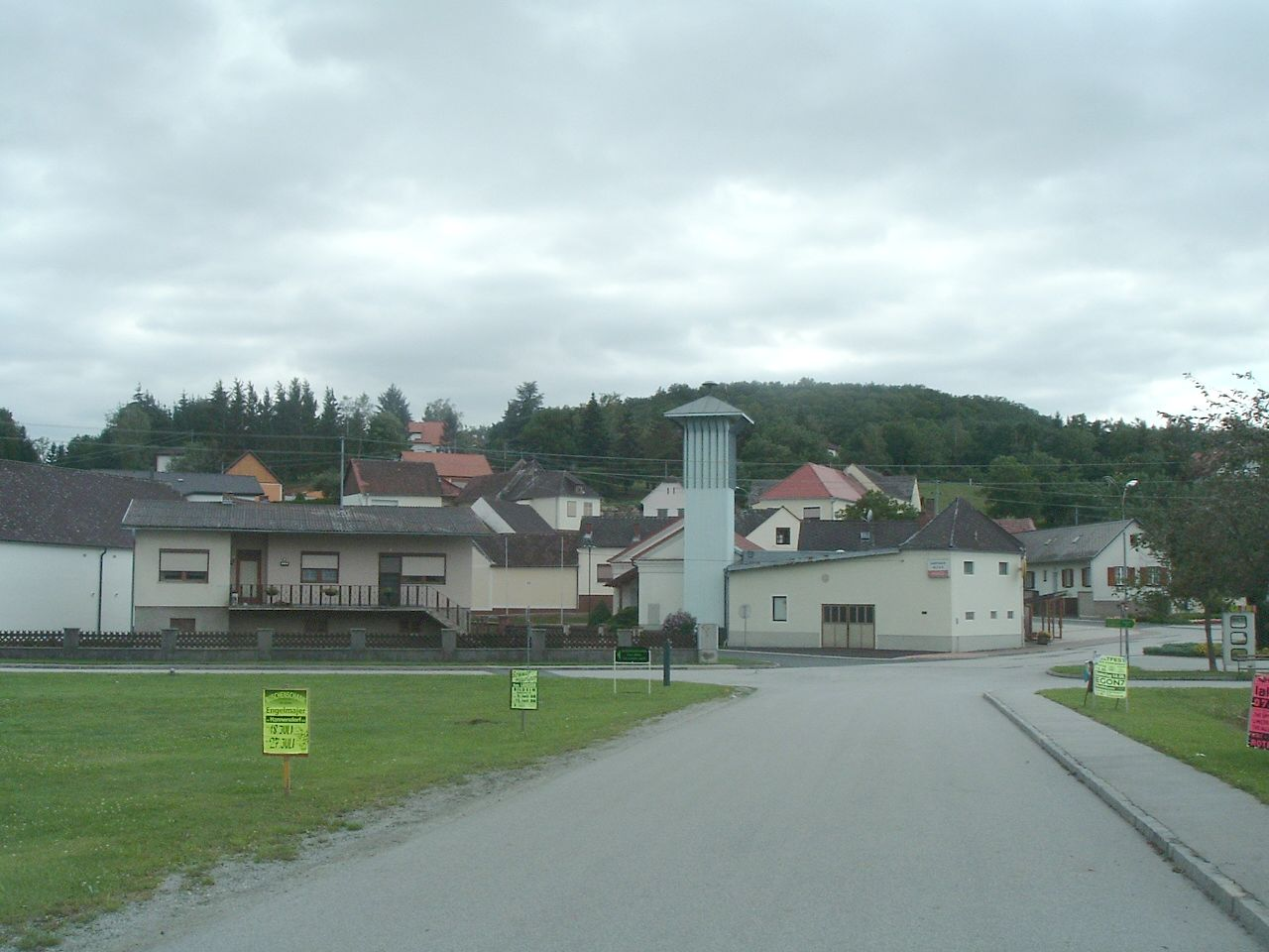 Burg (Pinkaóvár), Burgenland